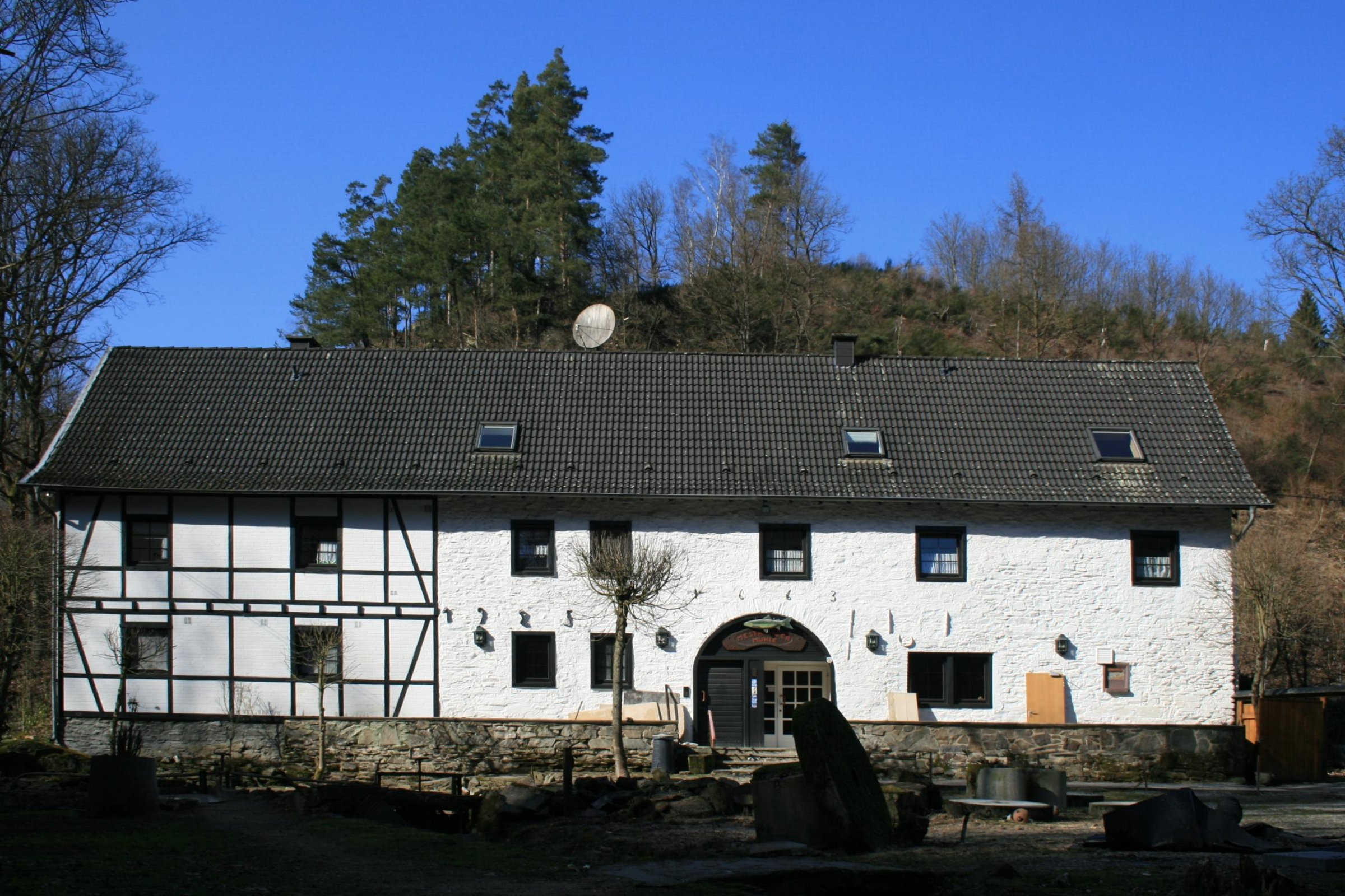 Cultural heritage monument No. 17 in Hürtgenwald